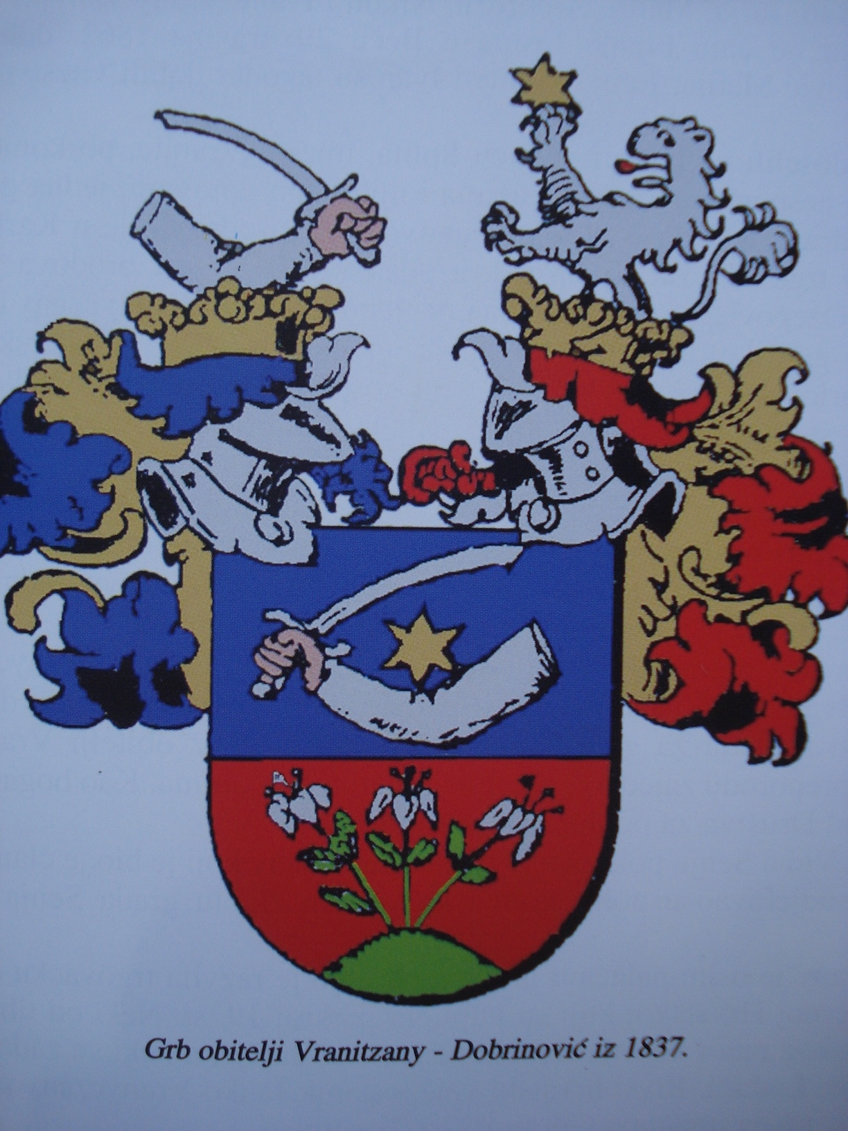 Coat of arms of the Vranyczany-Dobrinovich noble family, Croatia